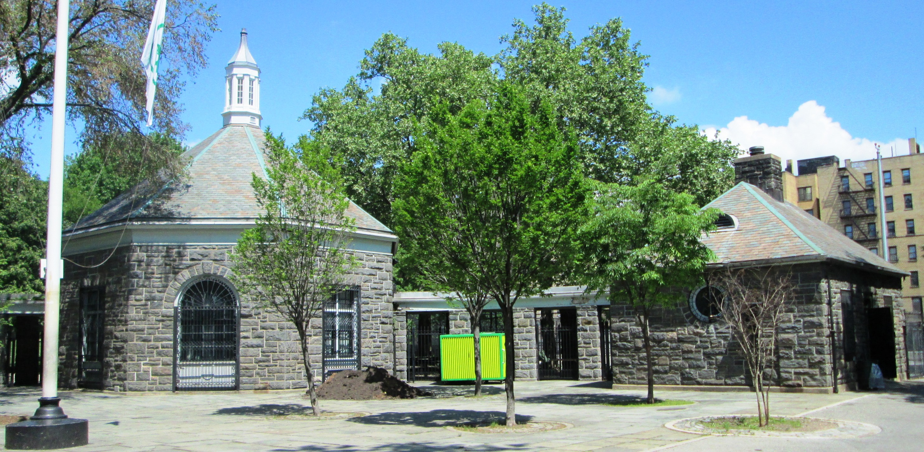 J. Hood Wright Park is a park of the New York City Department of Parks and Recreation, which is located between Fort Washington and Haven Avenuew and between West 173rd and 176th Streets in the Washington Heights neighborhood of Manhattan. It includes a playground, basketball courts, ballfields, and a recreation center. It is named for the man who formerly owned the site, a banker, financier and philanthropist who lived in a mansion on 175th Street and Haven Avenue. (Source: NYC Parks Dept websoite)